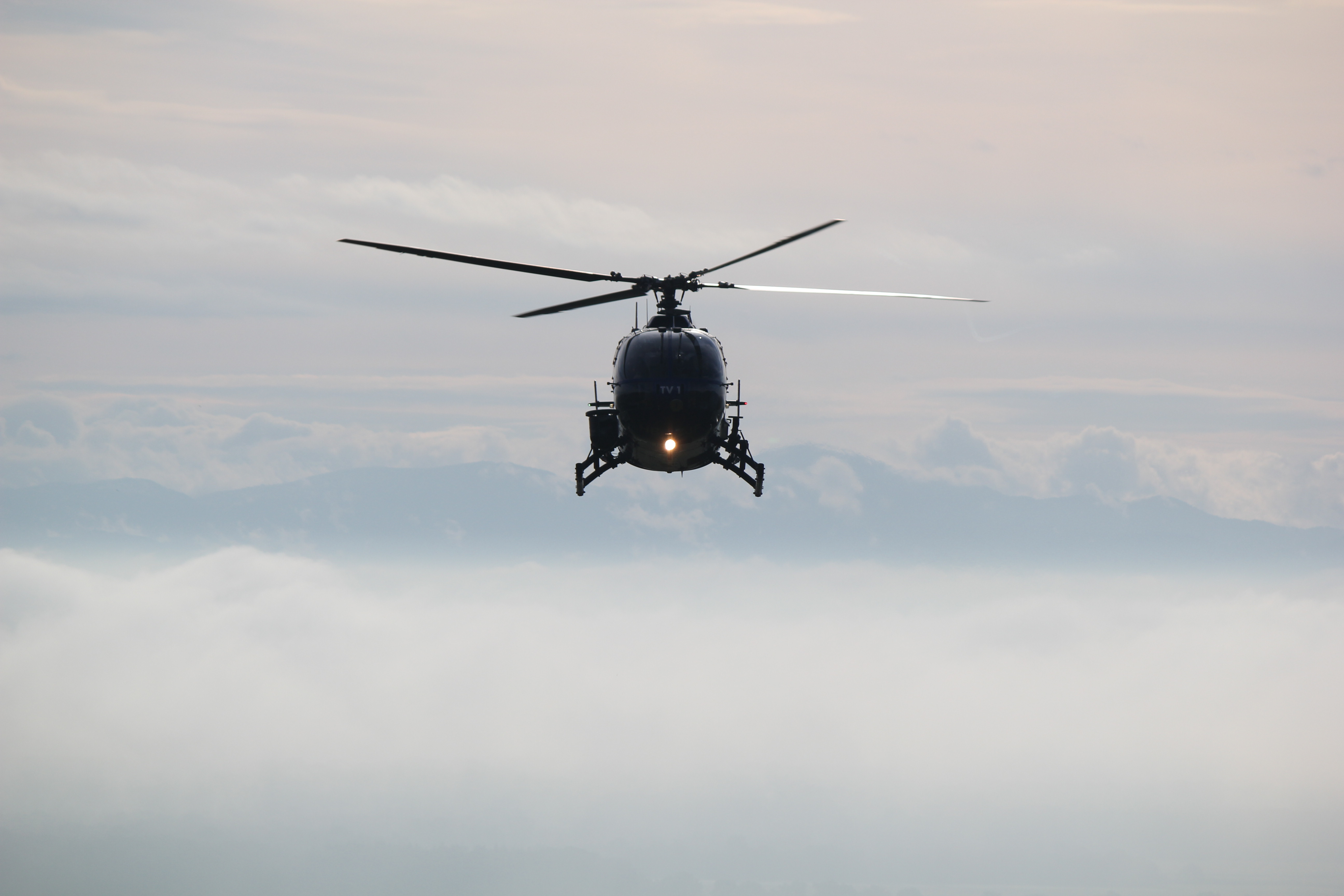 TV helicopter filming the participants of the rally of France, in Alsace, during World championship of the rallies 2010.